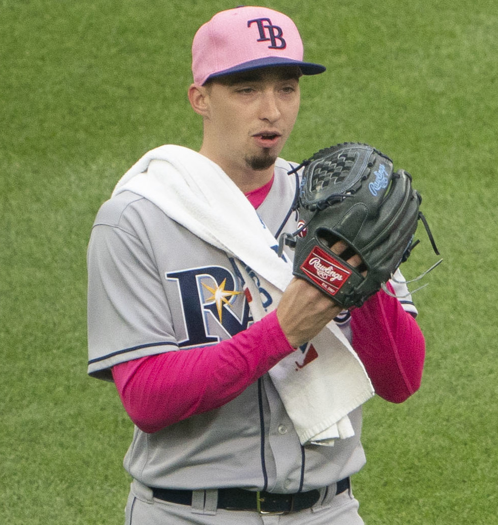 Blake Snell (left) and Wilson Ramos of the Tampa Bay Rays wearing Mothers' Day uniforms before a game against the Baltimore Orioles at Camden Yards in Baltimore in 2018